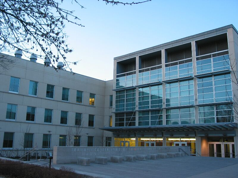 A photo of the John Deere Plaza, front of the building, and main entrance of the Seamans Center for the Engineering Arts and Sciences at the University of Iowa, on the corner of West Washington Street and South Capitol Street in Iowa City, Iowa.